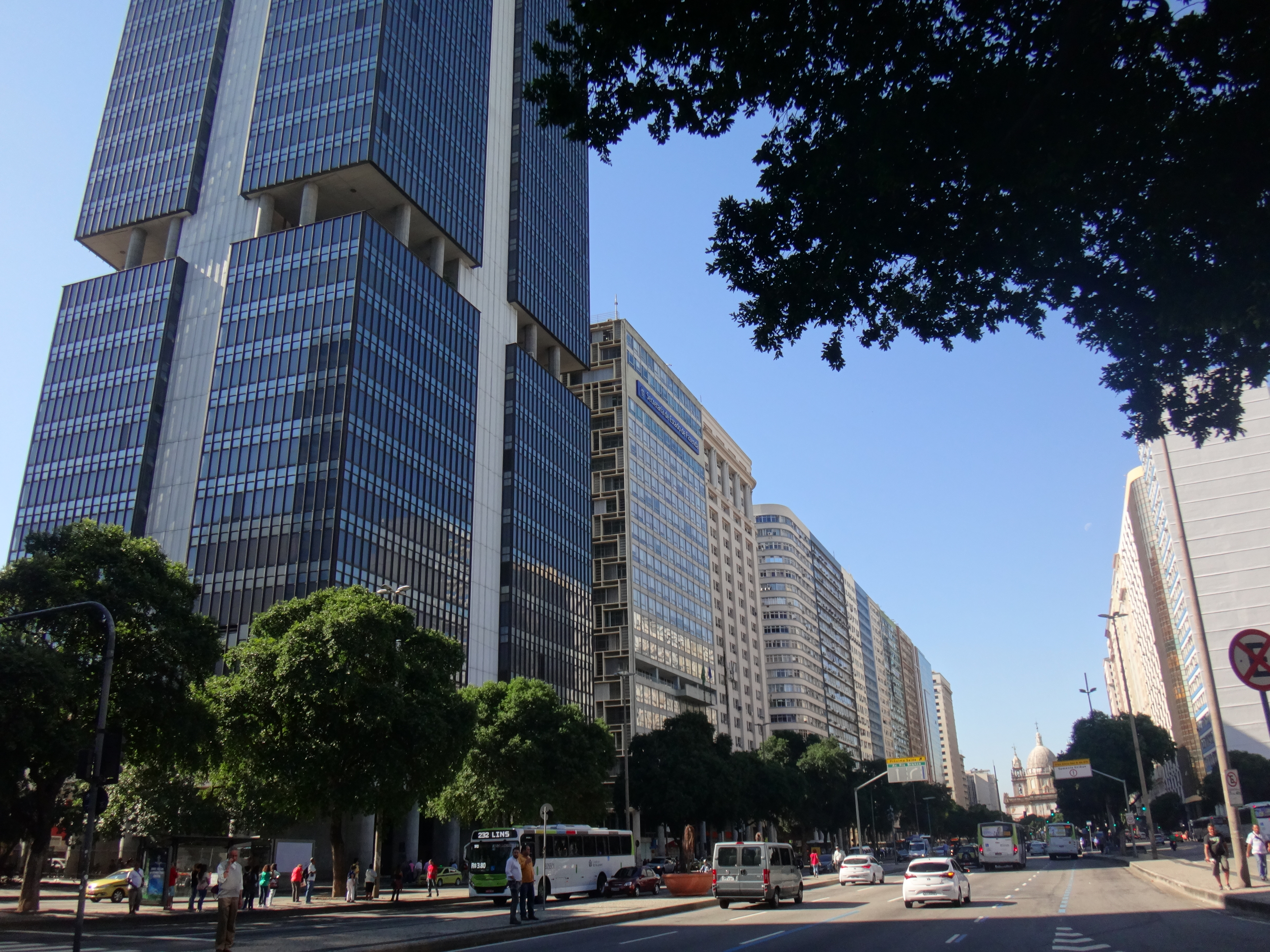 View of Avenida Presidente Vargas in Rio de Janeiro, Brazil